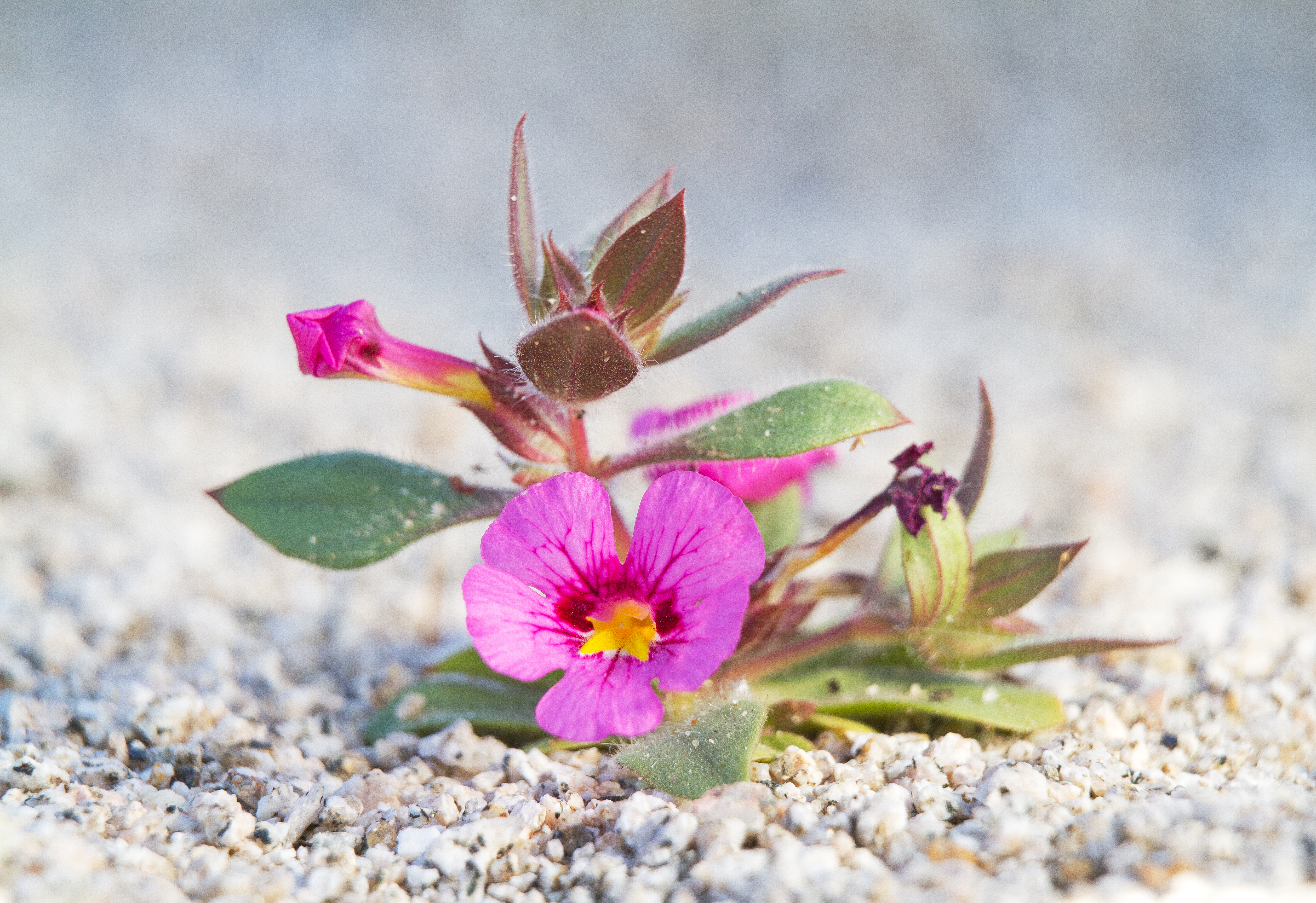 Mimulus bigelovii — Bigelow's Monkeyflower. In the Colorado Desert of the Sonoran Desert ecoregion, in southern California.